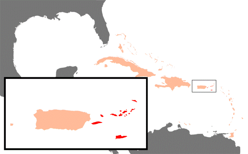 Position of the Virgin Island in the Caribbean